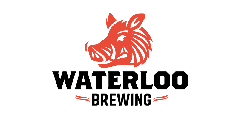 Waterloo Brewing Company Logo